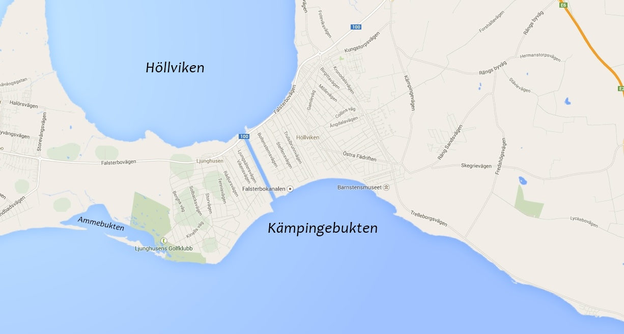 Kämpingebukten